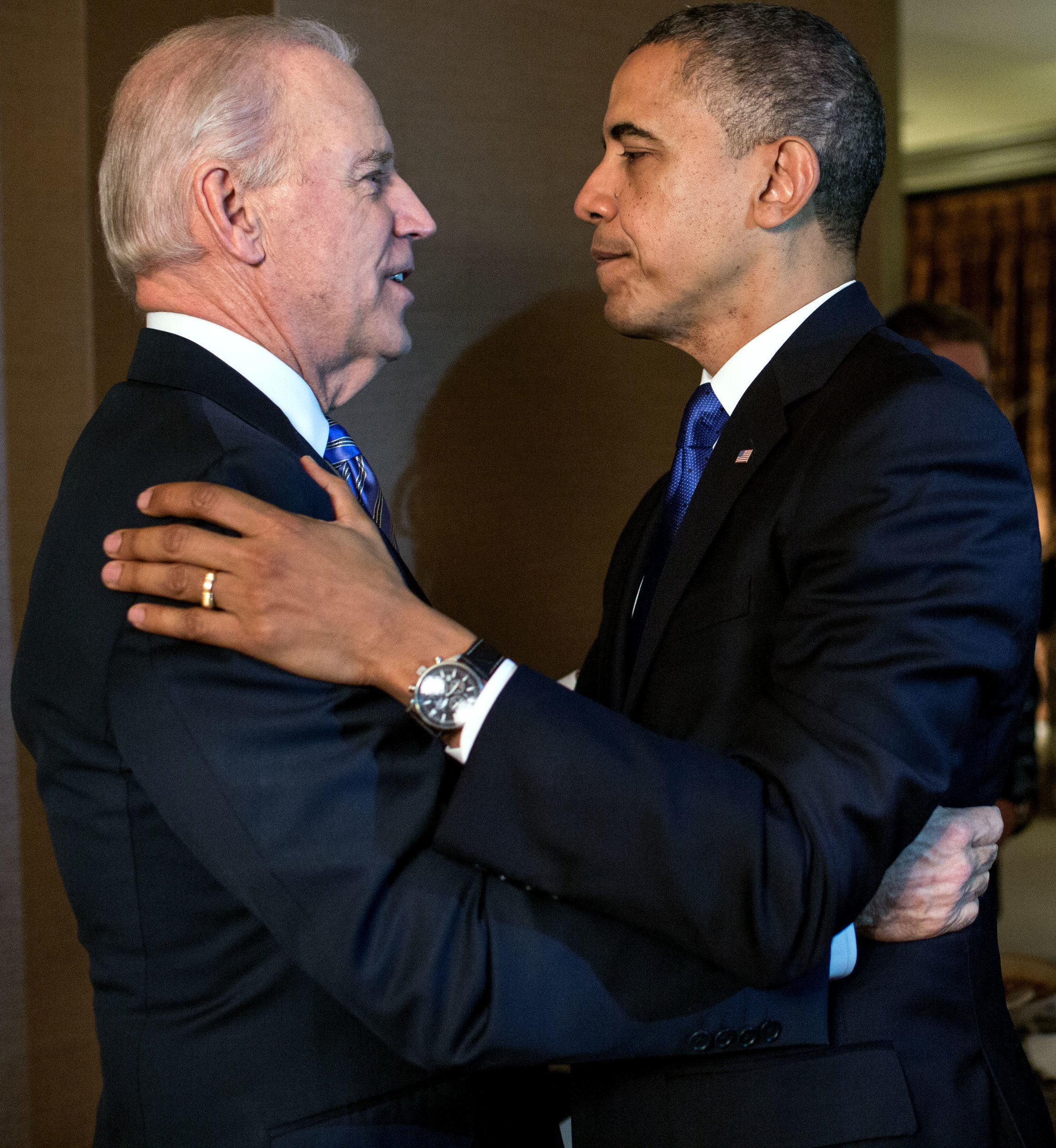 United States President Barack Obama and First Lady Michelle Obama embrace Vice President Joe Biden and Jill Biden moments after the television networks declared the 2012 presidential election in their favour, while watching election returns at the Fairmont Chicago Millennium Park in Chicago, Illinois on 6 November 2012.